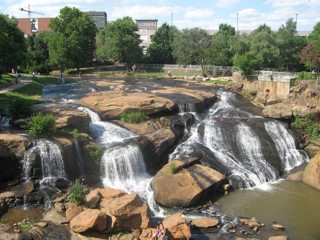 The Falls in downtown Greenville, South Carolina